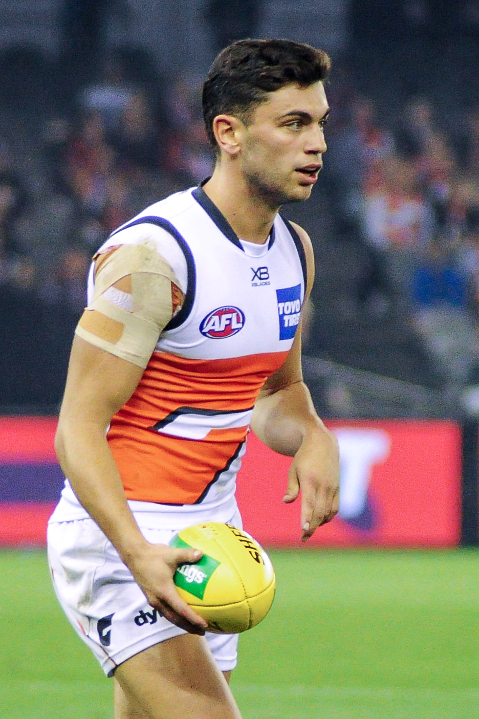 Tim Taranto during the AFL round five match between St Kilda and Greater Western Sydney on 21 April 2018 at Etihad Stadium in Melbourne, Victoria.